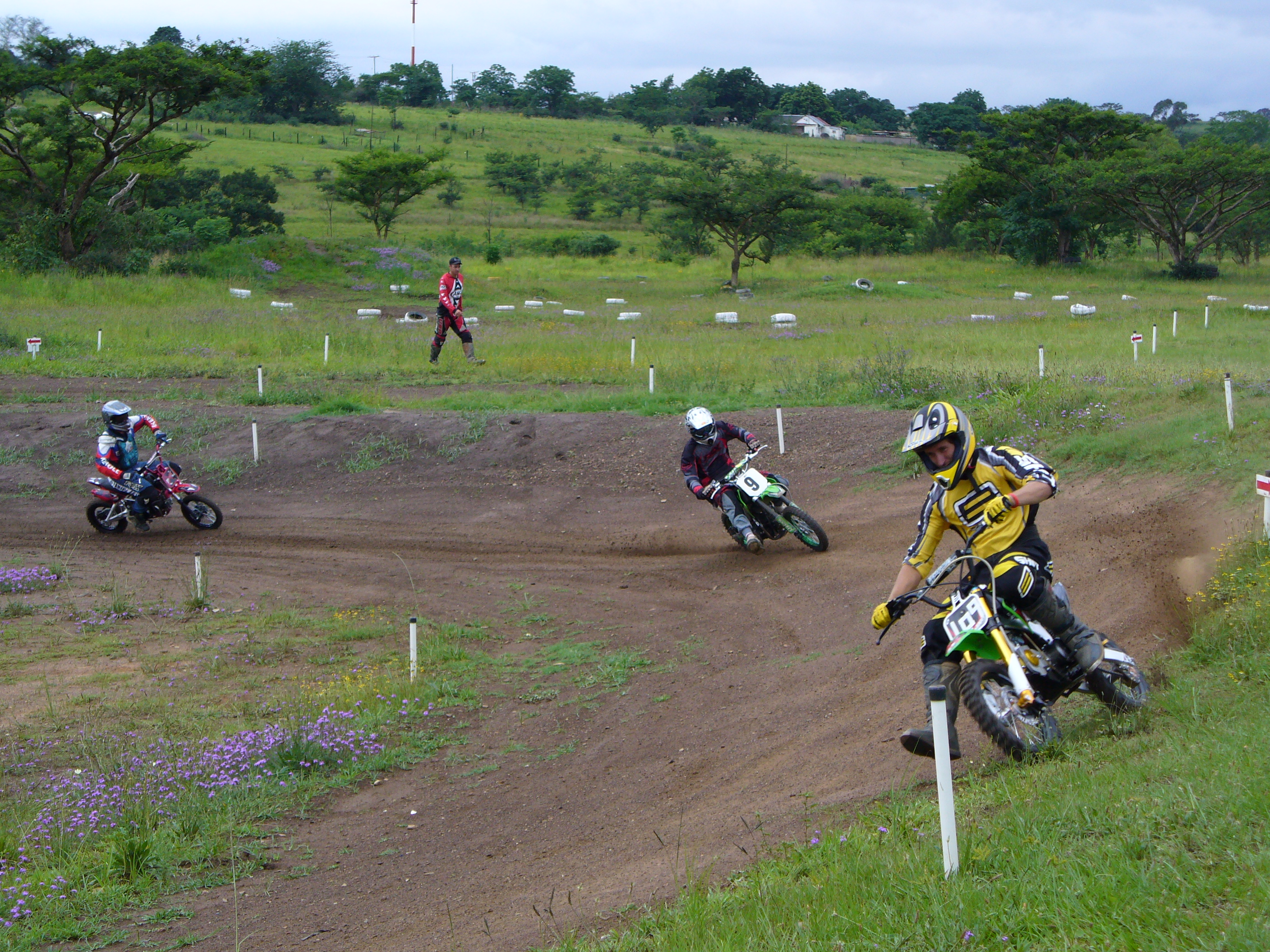 Participants in a pitbike race at the New England motocross track in Pietermaritzburg, South Africa.